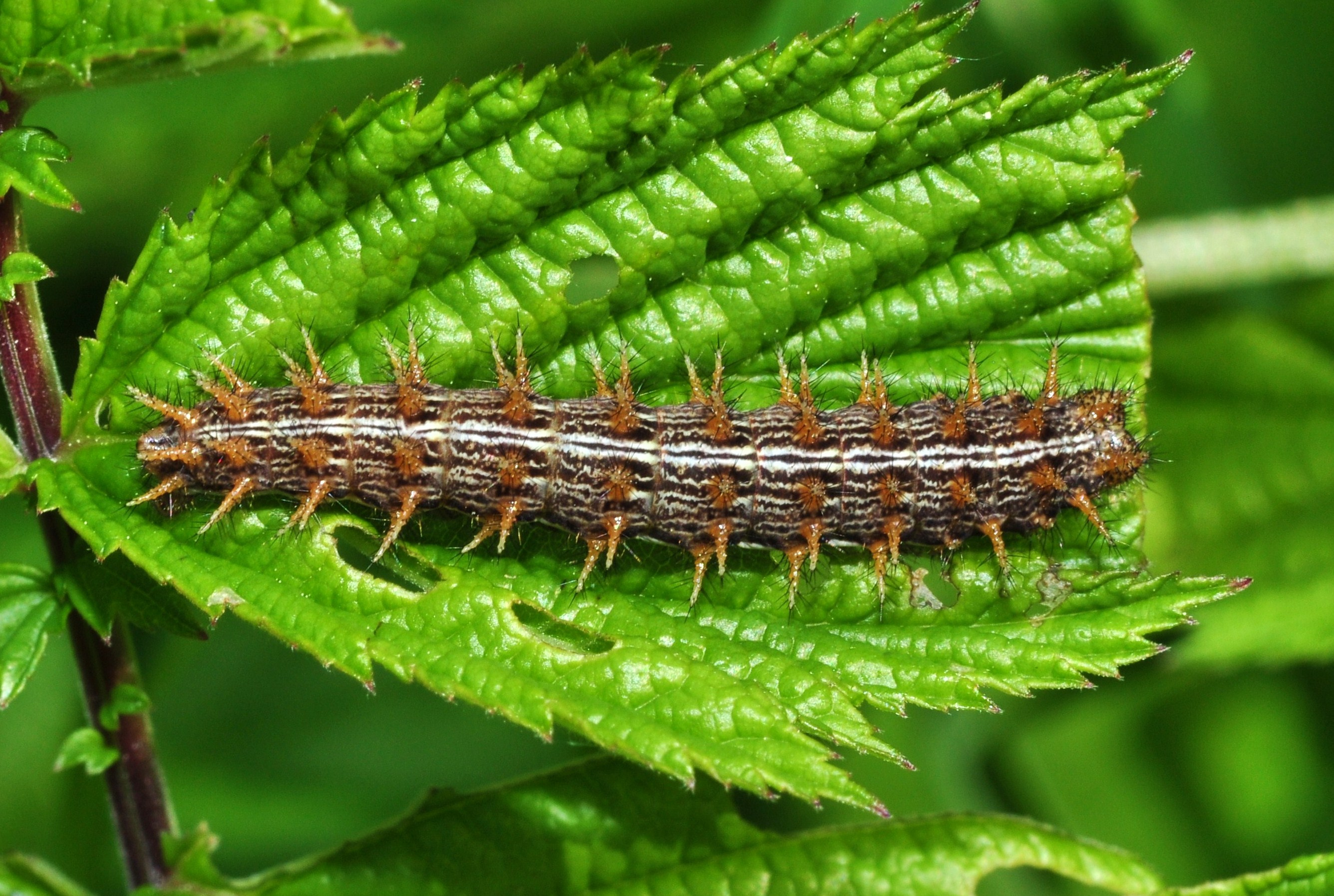 Thanks to Gerry for ID